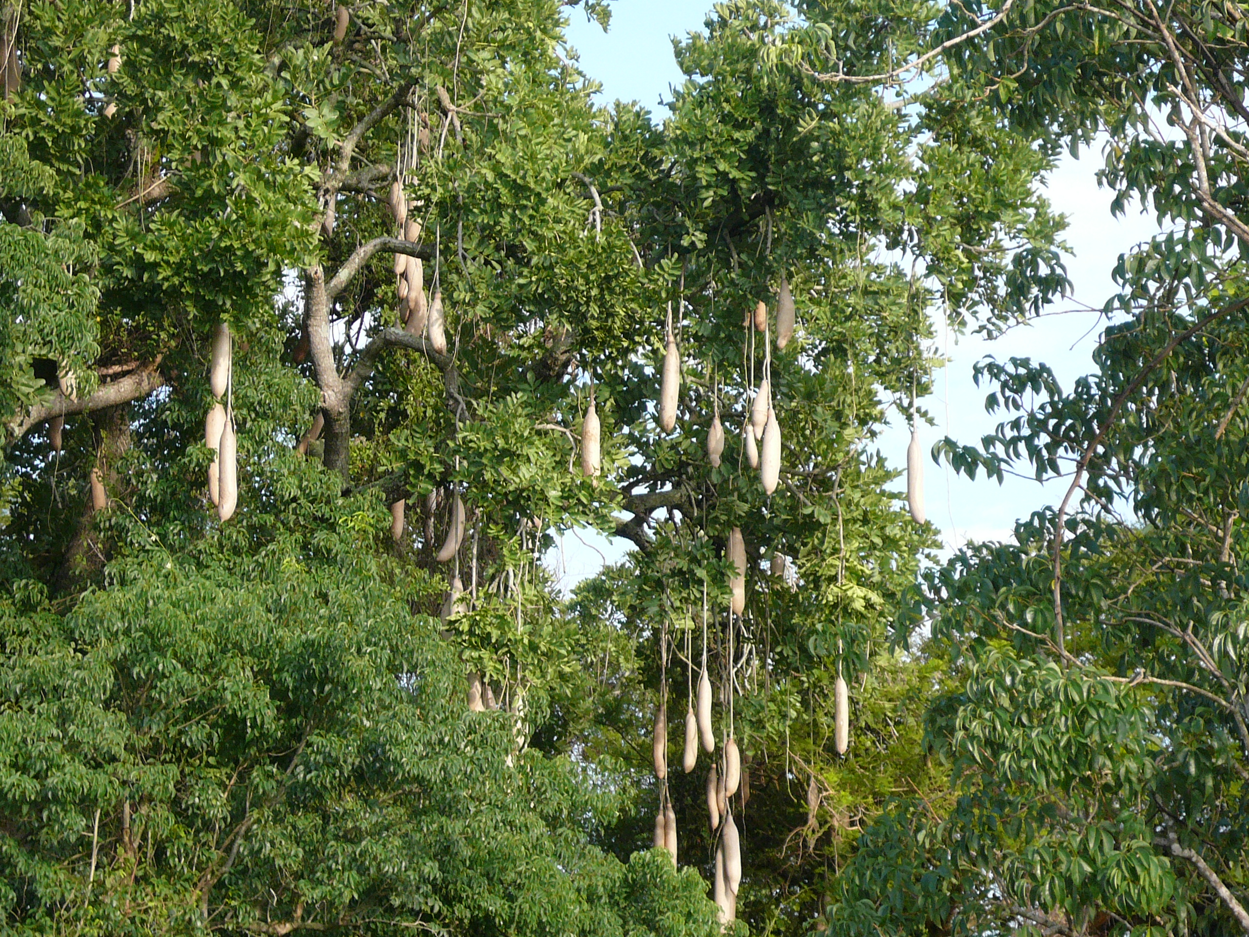 Kigelia africana, taken in Murchison Falls National Park, Uganda